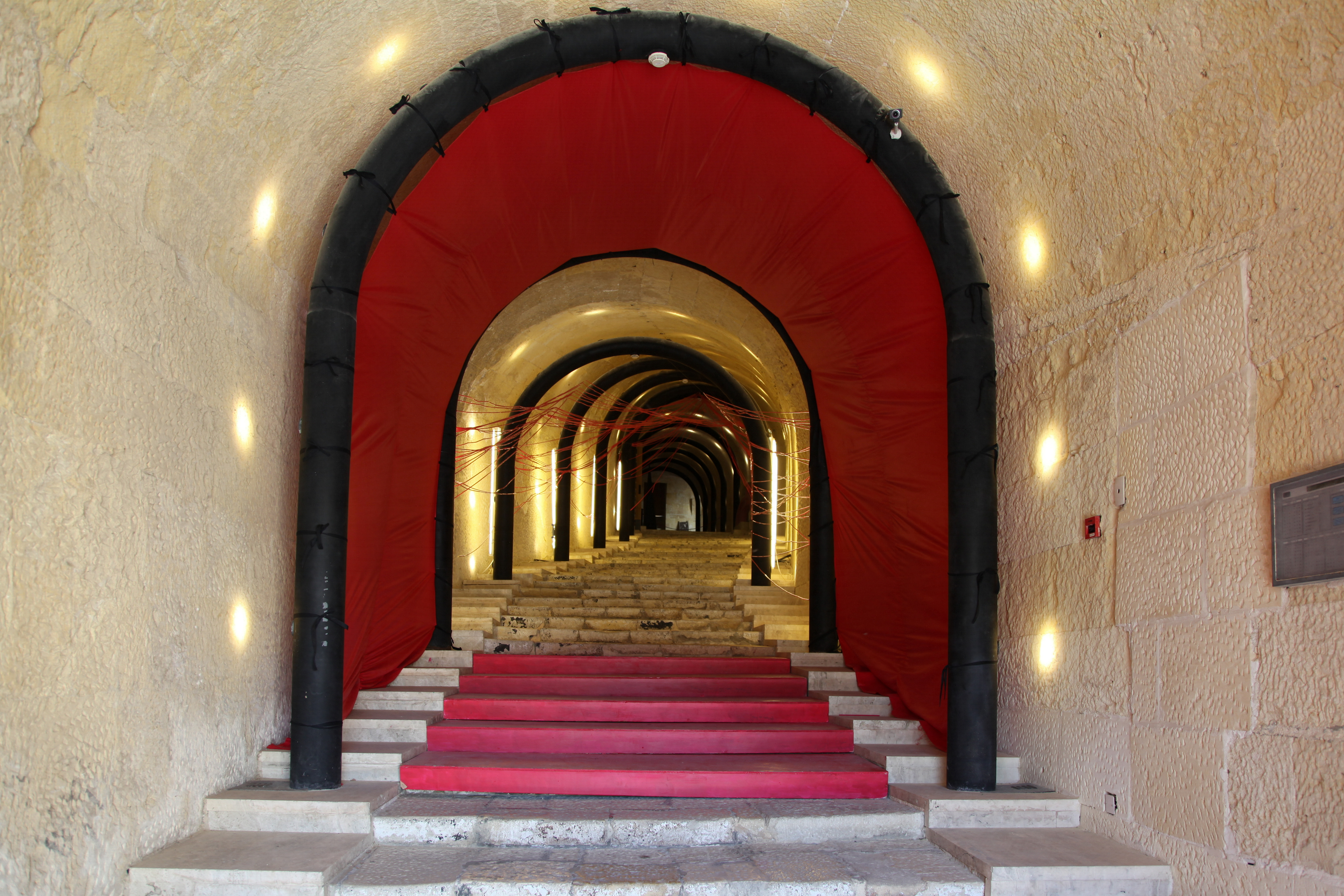 St. James Cavalier at Pjazza Kastilja in Valletta, Malta